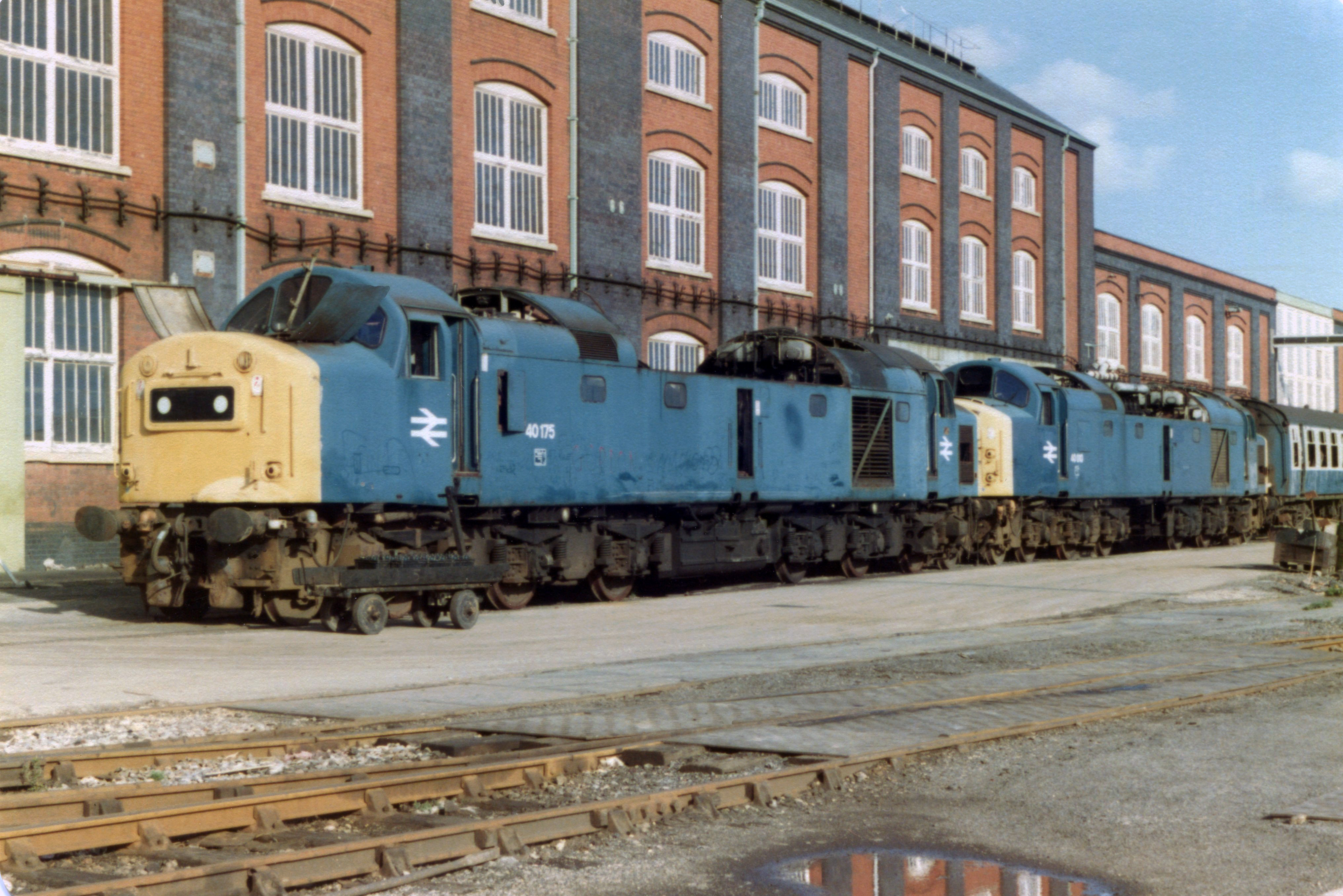 40175 & 40010 Swindon Works 28.10.82